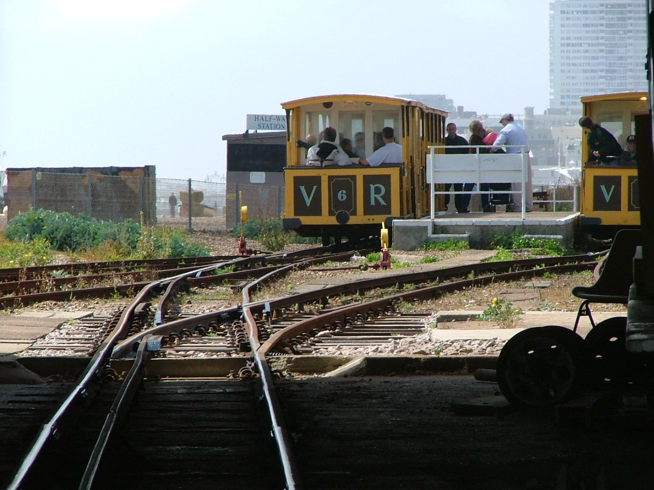 Volk's Electric Railway Middle Station (today Paston Place Station, formerly known as Halfway and (Peter Pan's) Playground) in Brighton, England.